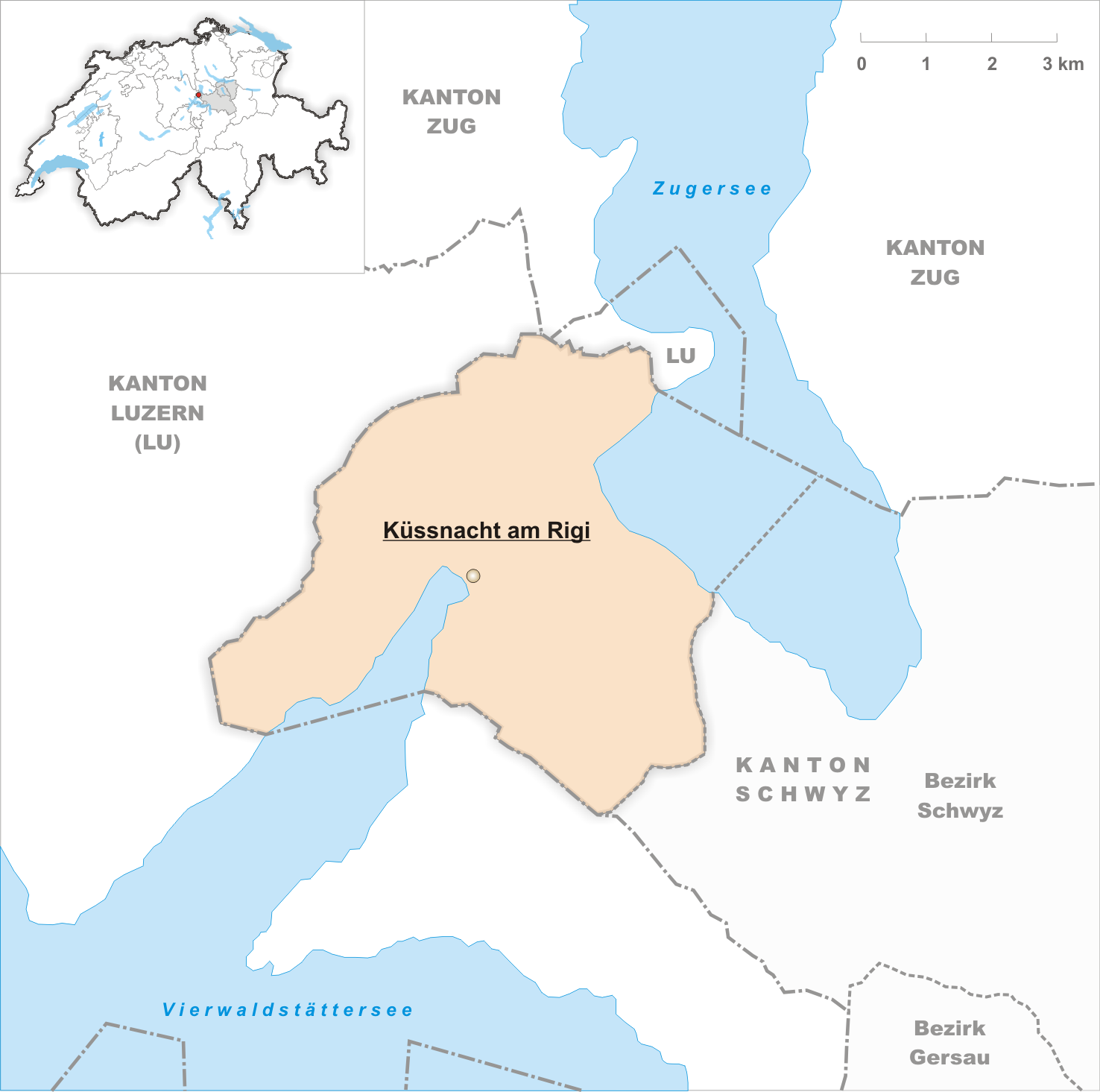 Municipality Küssnacht